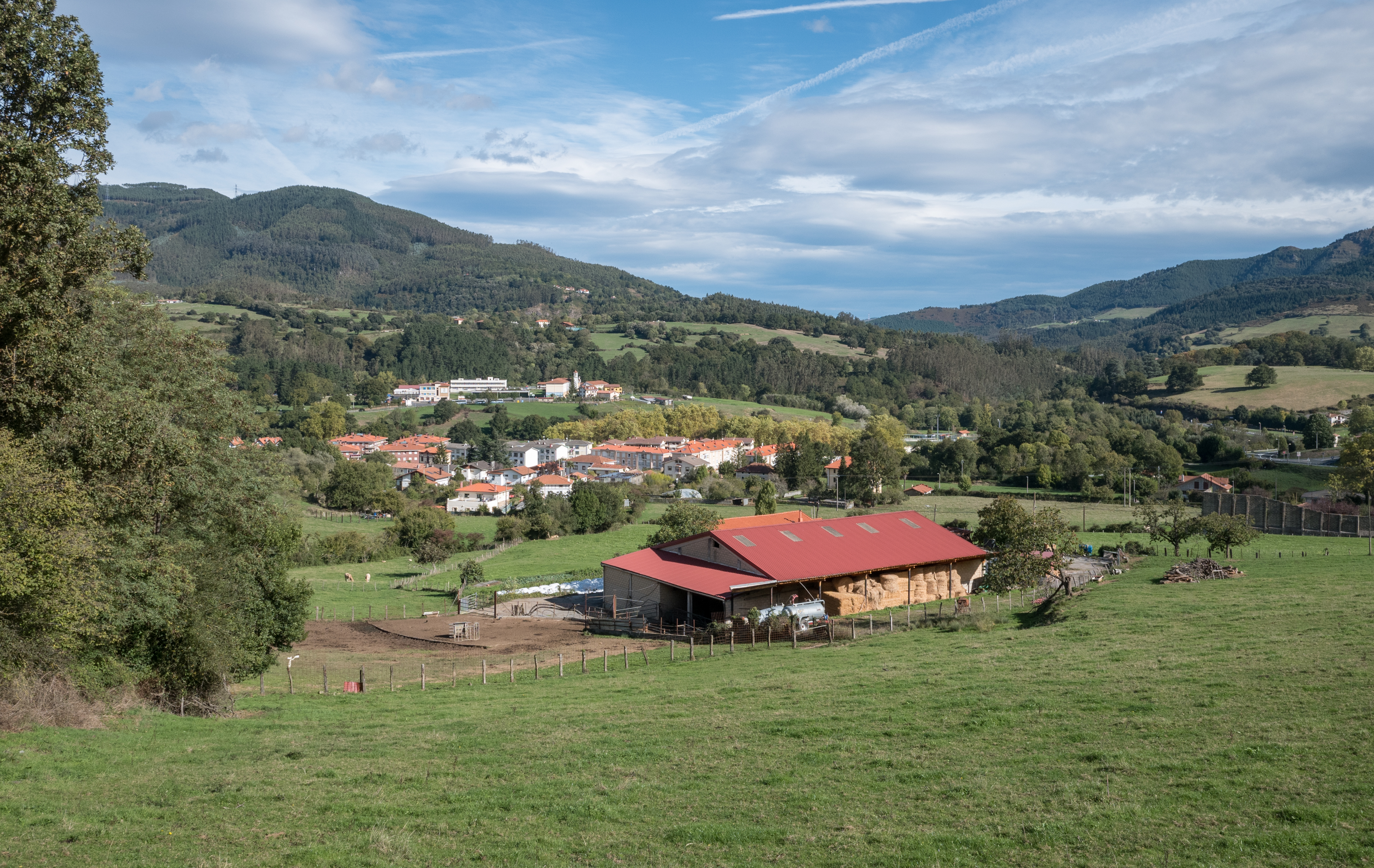 View over Sopuerta. Encartaciones, Biscay, Basque Country, Spain